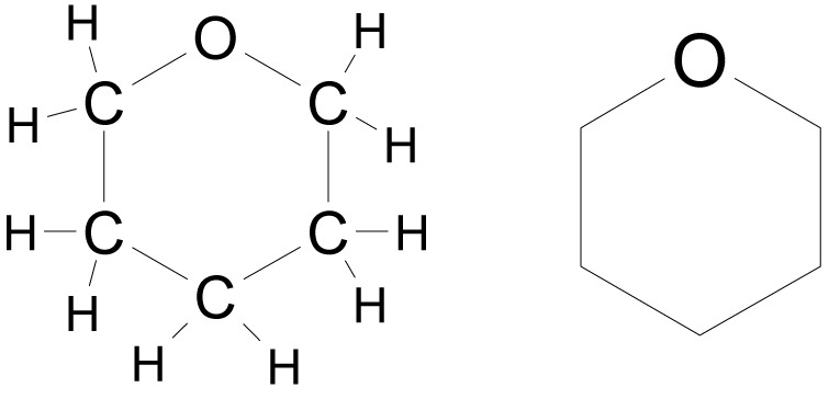 Oxacyclohexan / Tetrahydropyran (double structure simple/advanced)